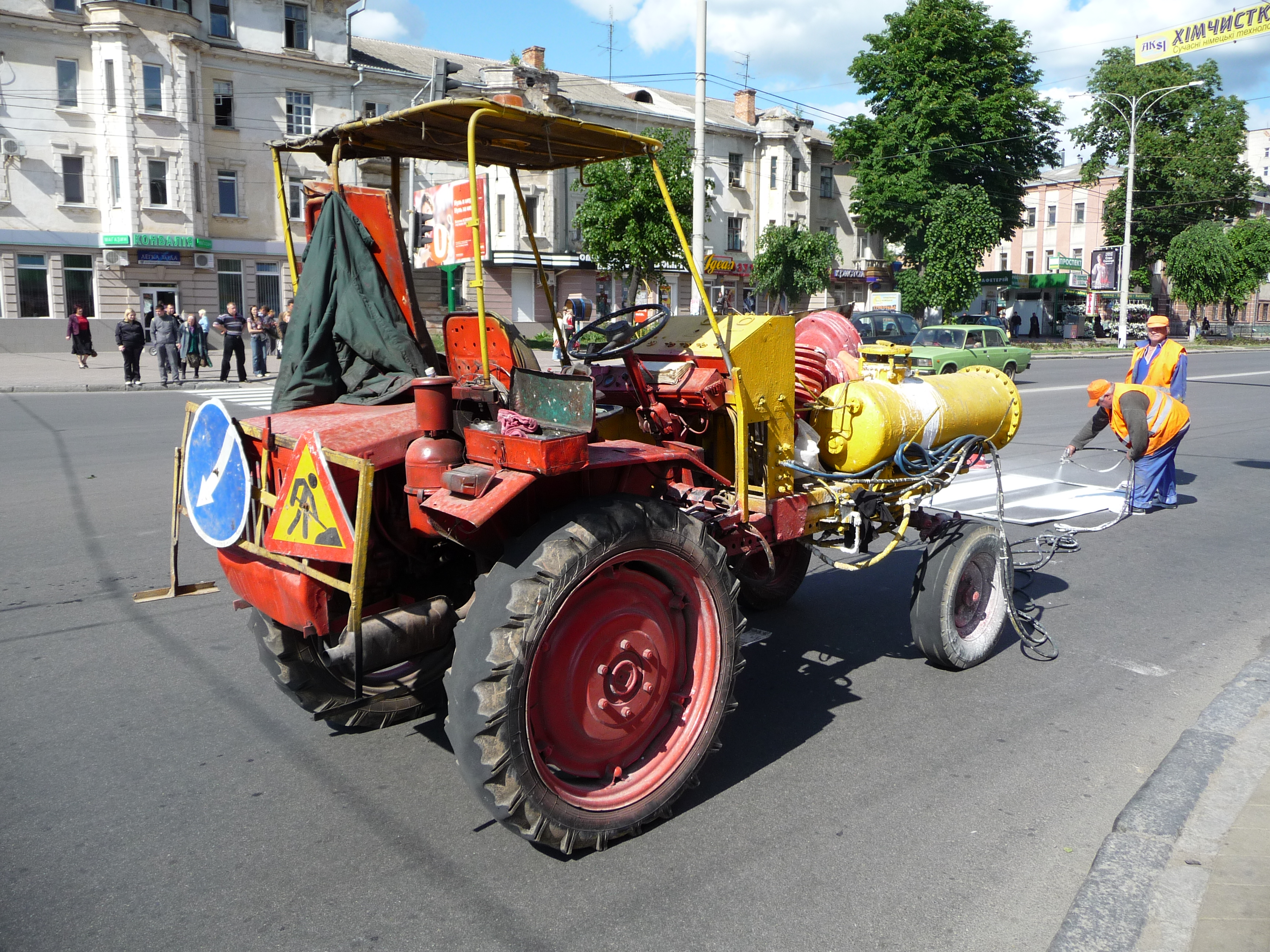 Old tool carrier T-16MG (USSR tractor). Ukraine, Vinnytsia, 2009. Production of KhZTSSh (Kharkov). Used for marking a pedestrian crossing.